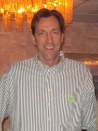 Chris Dudley at a Dorchester Conference reception in Seaside, Oregon on 3/6/2010